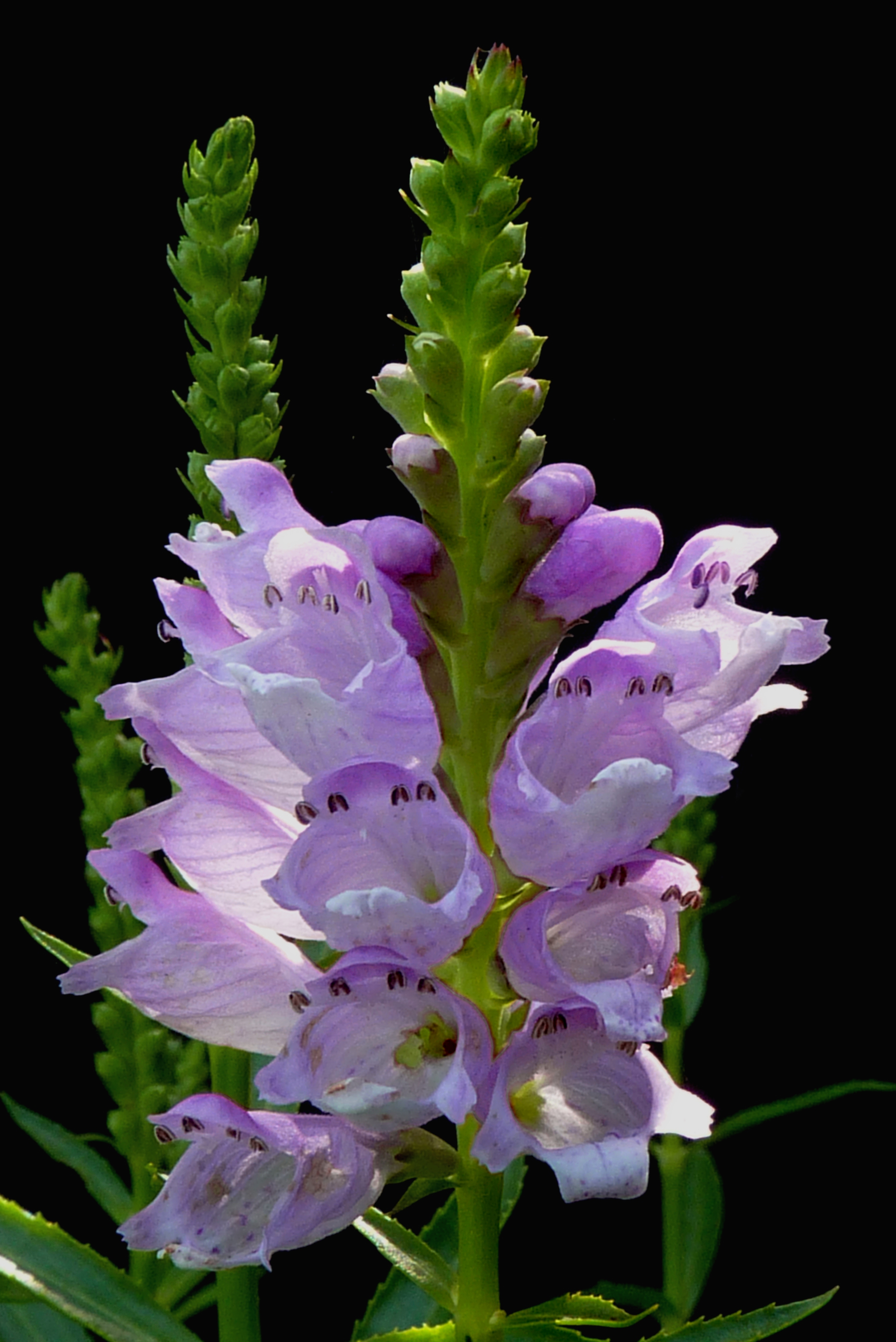 Physostegia virginiana 'Rosea', picture taken in Belgium.